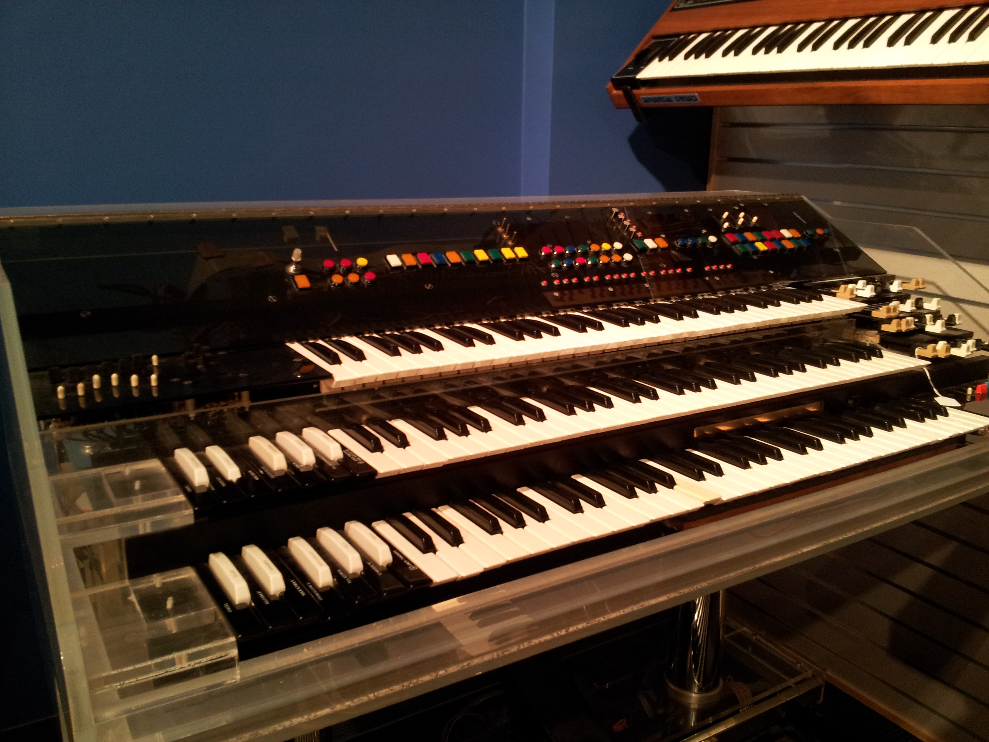 Don Lewis' LEO (Live Electronic Orchestra), a synthesizer organ Lewisizer Presents-Live Electronic Orchestra-LEO. Lewisizer Presents. Archived from the original on 2009-01-05. Early DIY Synthesizer. MATRIXSYNTH (2012-08-19).